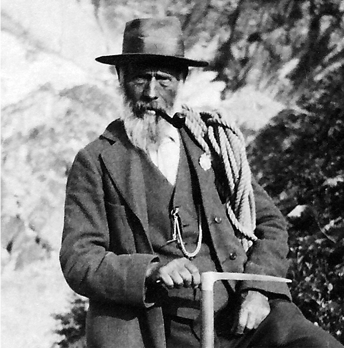 Peter Kaufmann (1858-1924), Swiss mountain guide with icepick, climbing rope, Swiss climber's badge, pocket-watch chain, pipe, and hat.